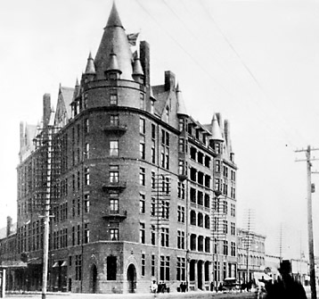 The Canadian Northern Railway's Manitoba Hotel, in Winnipeg